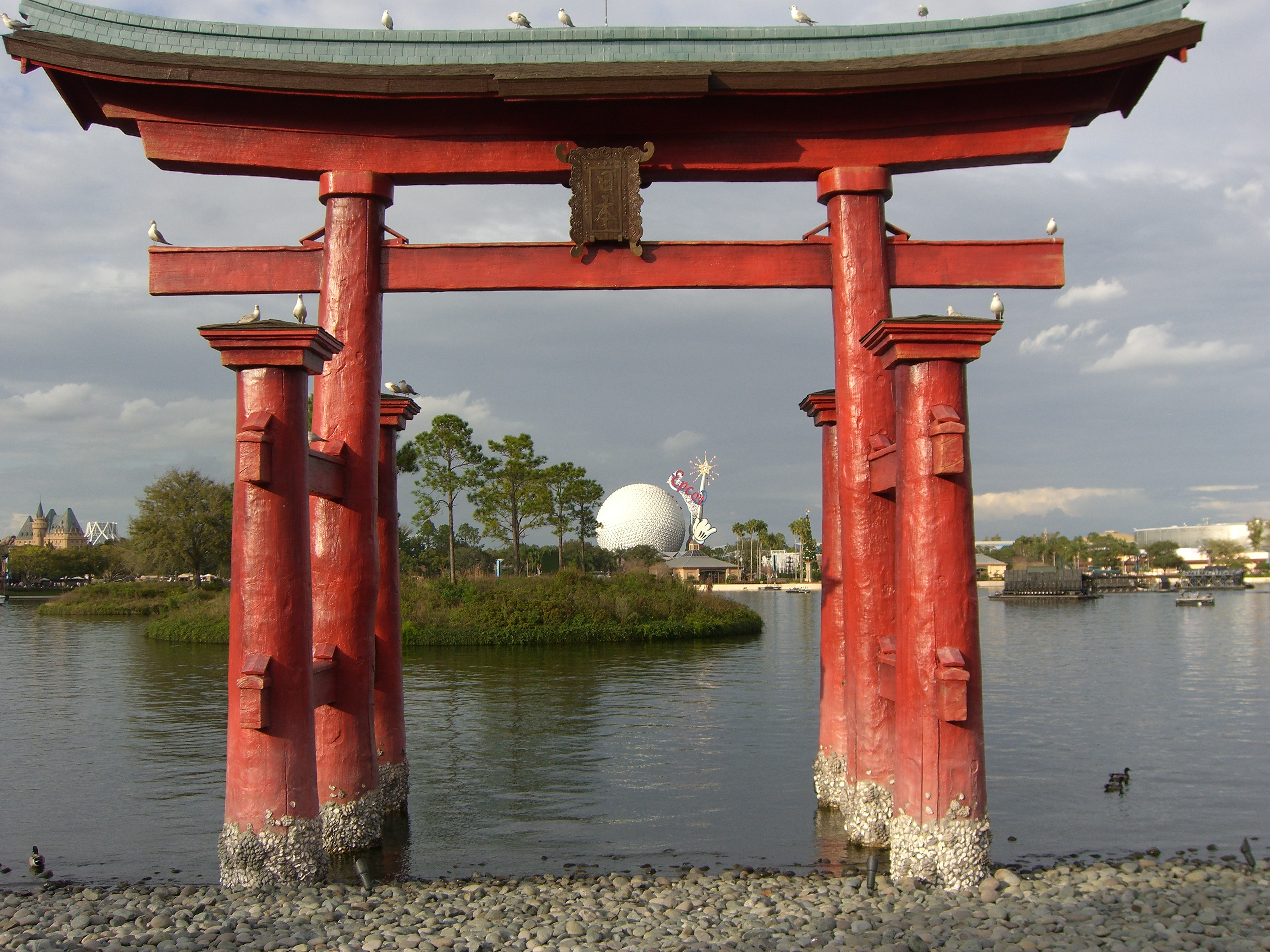 Entrance gate to the Japan pavillion at Epcot with Spaceship Earth in background.